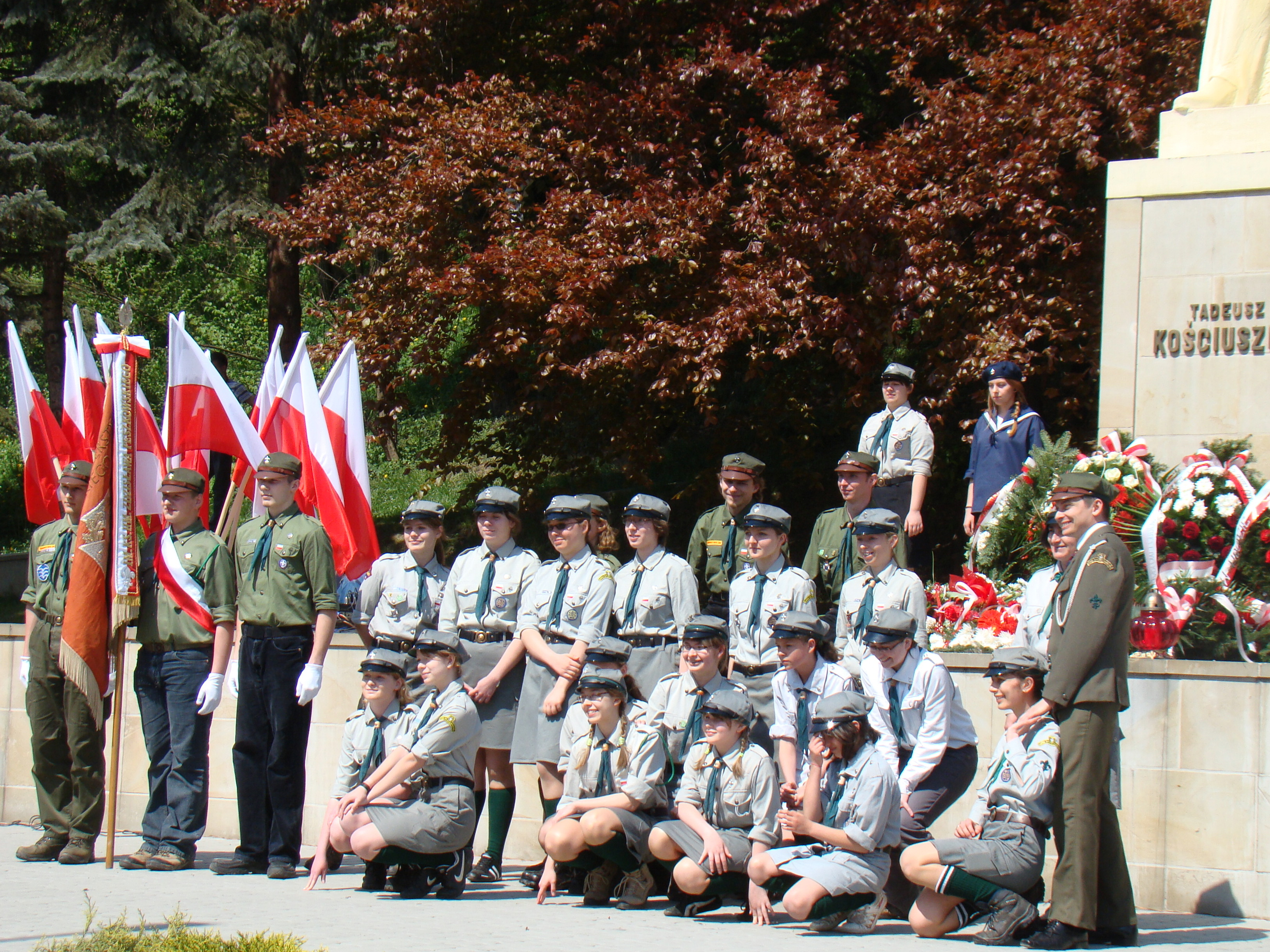 Constitution Day in Sanok. 2009